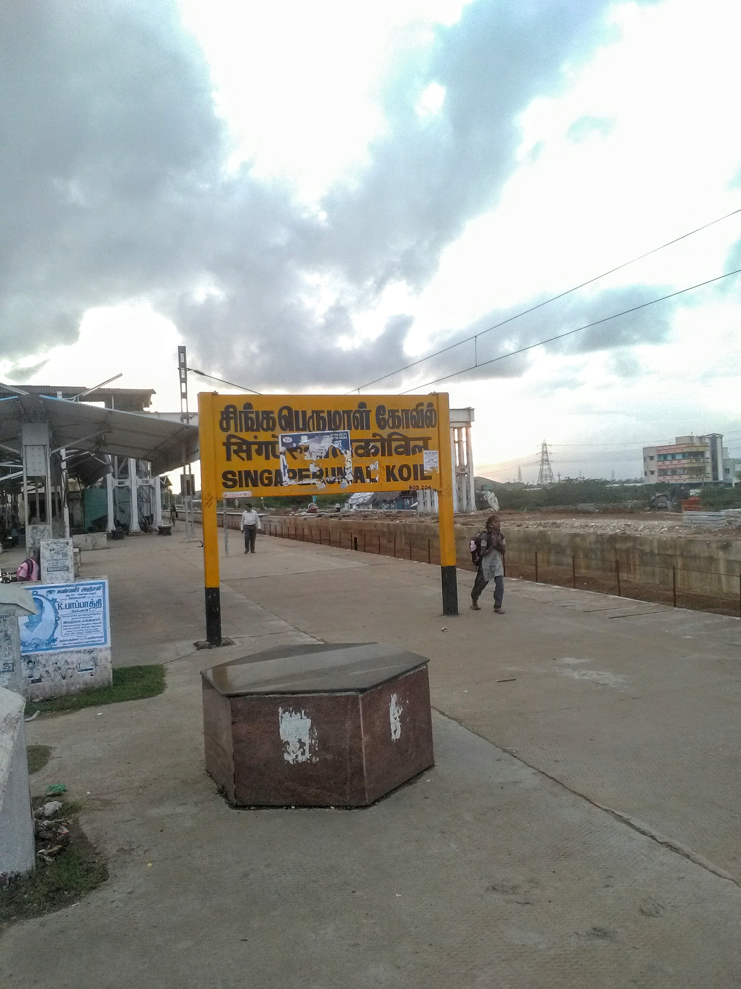 Singaperumal Koil Railway Station Inside ..